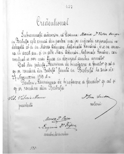 Mandate of the Romanian politician Maria Onișor, deputy in the Great National Assembly from Alba Iulia, on behalf of the Benefaction Association of the Romanian Greek Catholic and the Eastern Orthodox Christian women, from Bistrița - Romania, 1918Română: Credențional pentru Maria Onișor, delegată în Marea Adunare Națională de la Alba Iulia, din partea Reuniunii de binefacere a femeilor greco-catolice și greco-ortodoxe din Bistrița, 1918